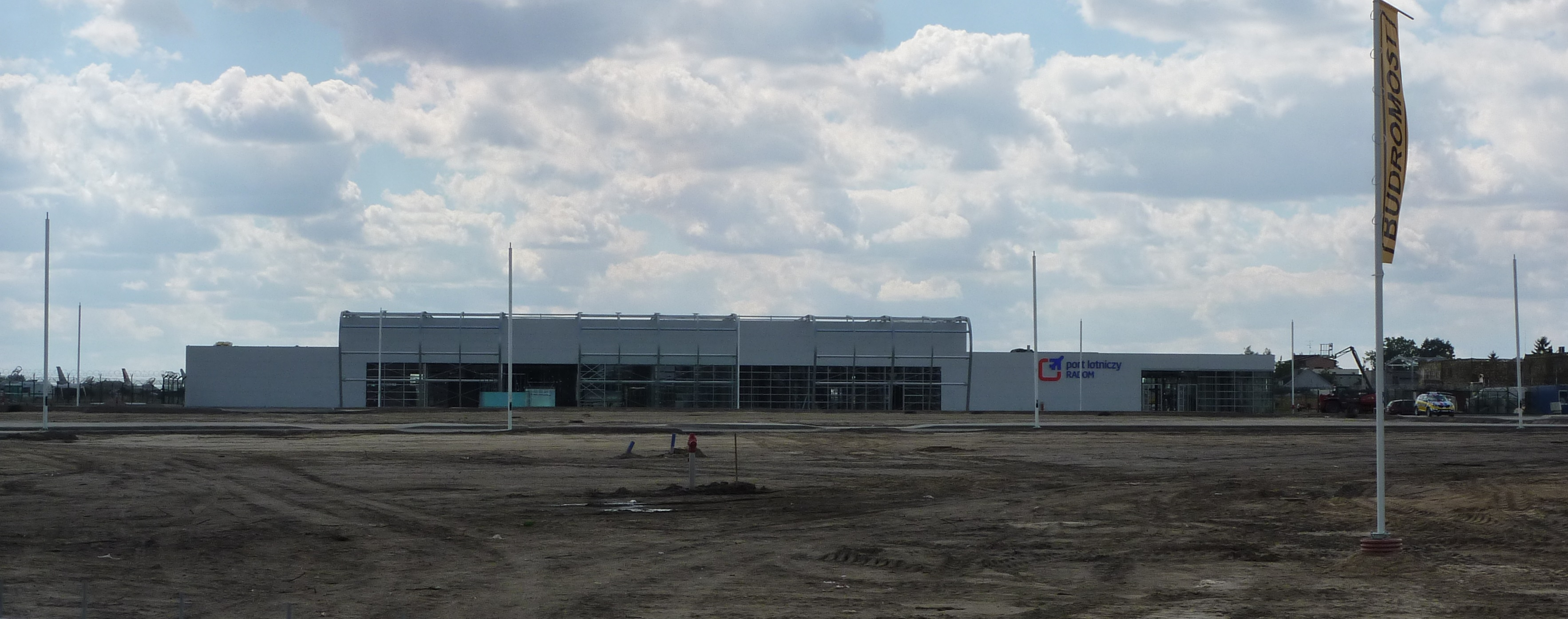 Radom Airport terminal